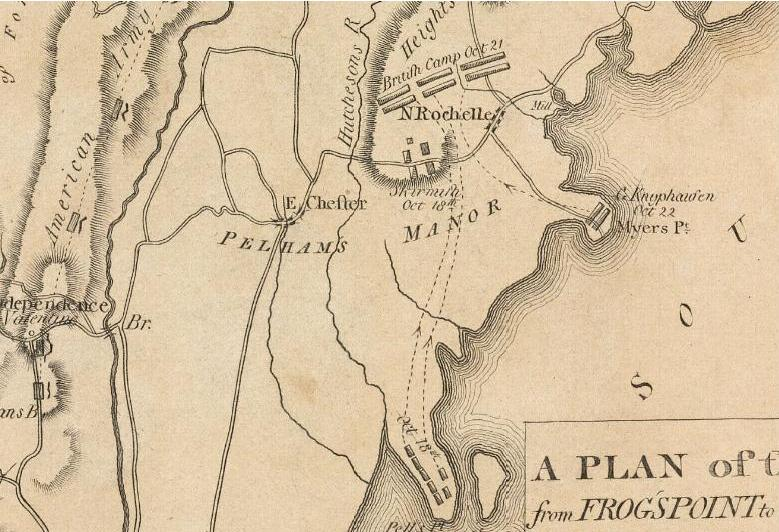 Map of Pell's Point and the surrounding area.